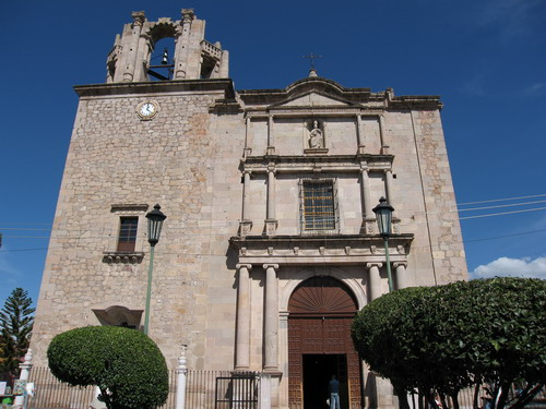 View of Temple of San Luis in Colotlan, Jalisco Vista del templo de San Luis en Colotlan, Jalisco